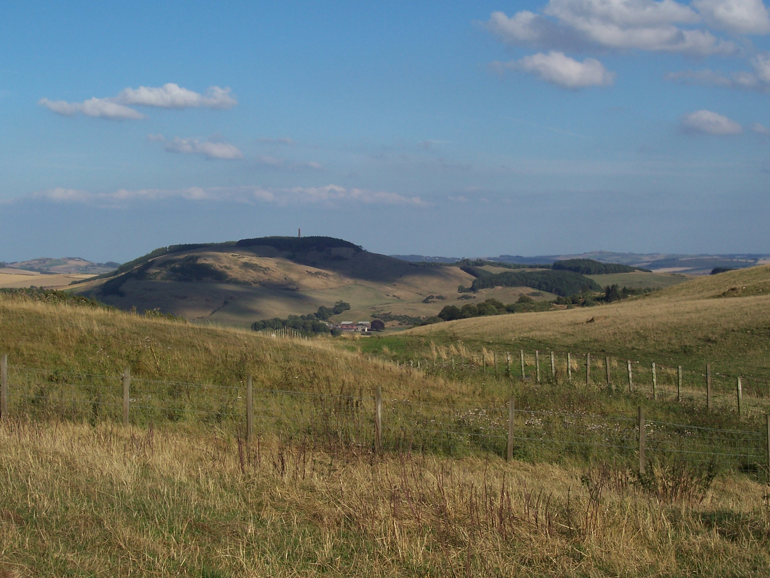 Taken by Stuart Westwater 06 September 05